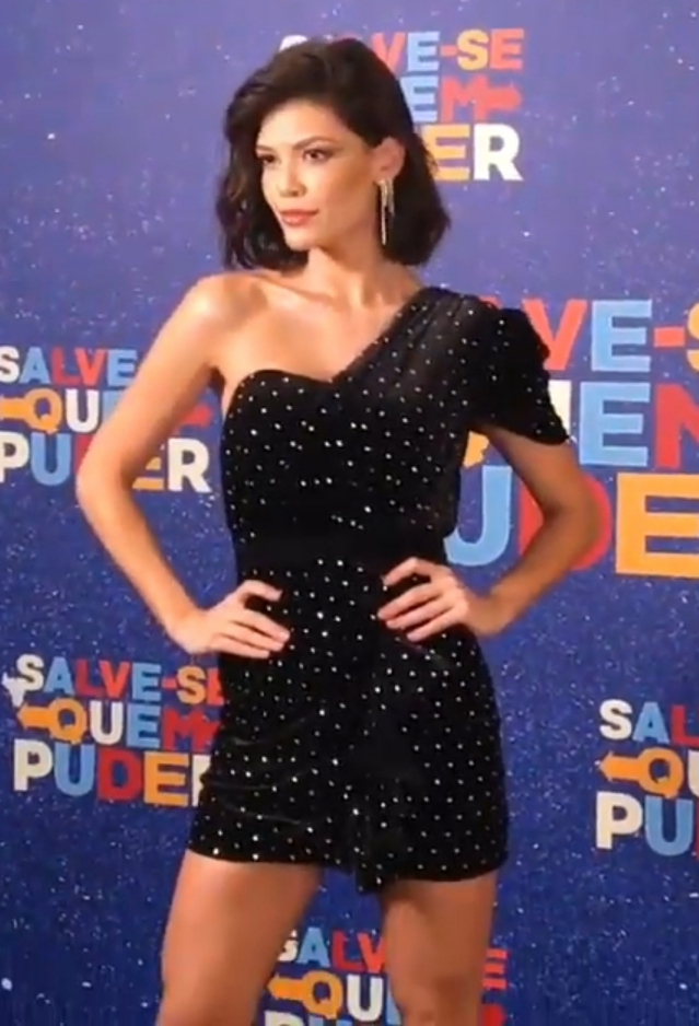 Strada in 2020